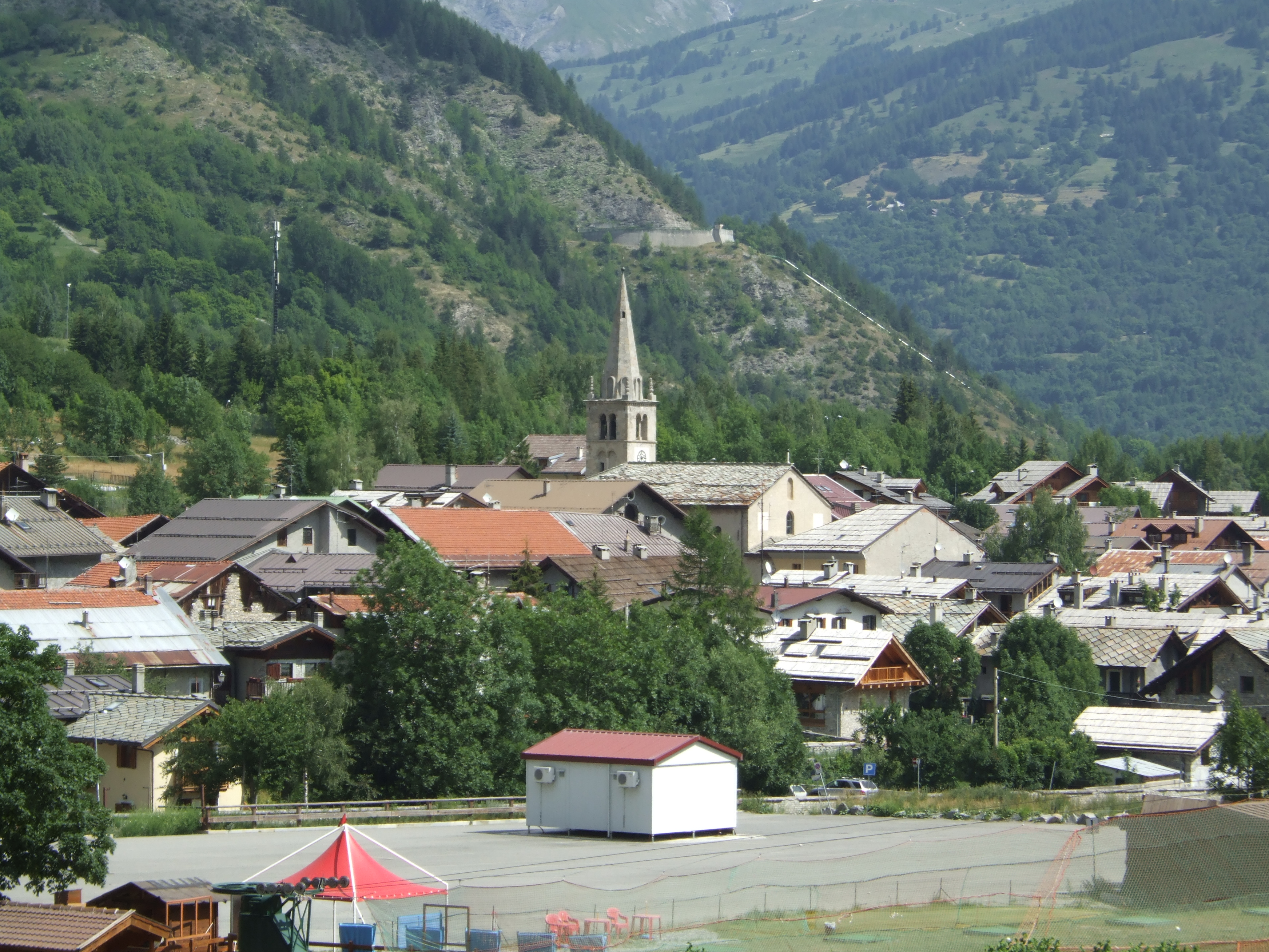 View of Melezet (Bardonecchia- Italy)